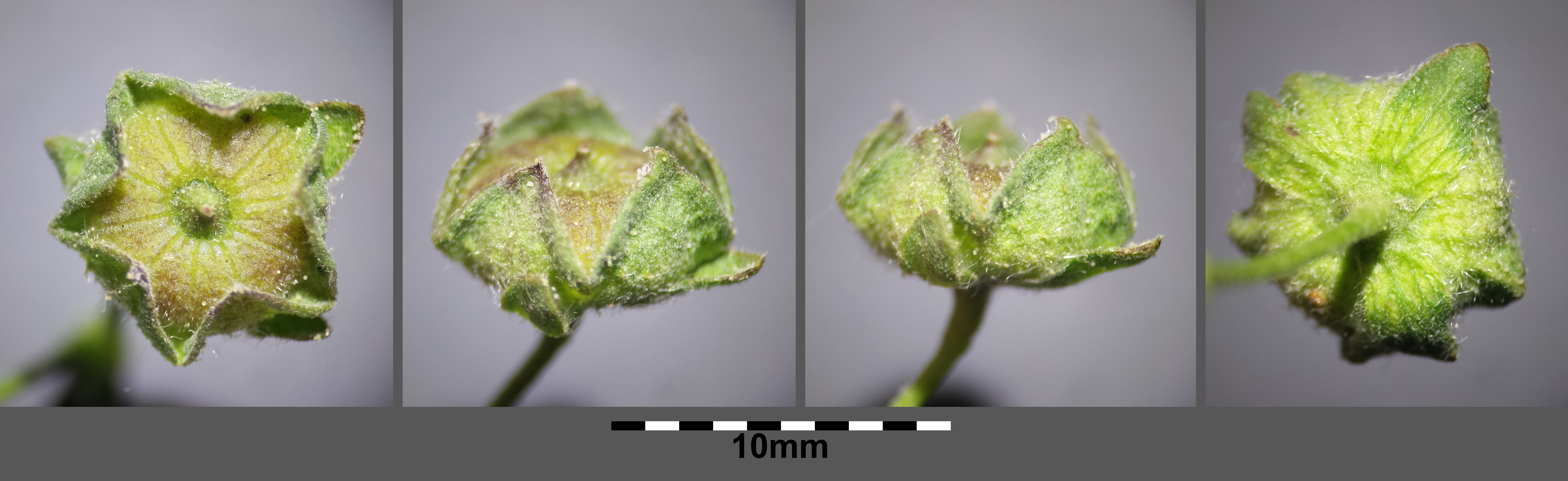 Fruit Taxonym: Malva sylvestris ss Fischer et al. EfÖLS 2008 ISBN 978-3-85474-187-9 Location: Neue Donau, Vienna-Floridsdorf - ca. 160 m a.s.l. Habitat: dry meadows